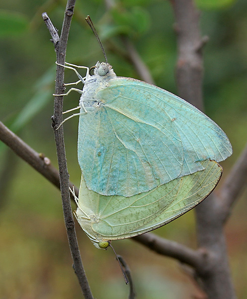 Mottled Emigrant Catopsilia pyranthe in Hyderabad , India.